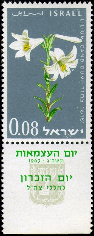 Lilium candidum on 1963 Israeli postal stamp